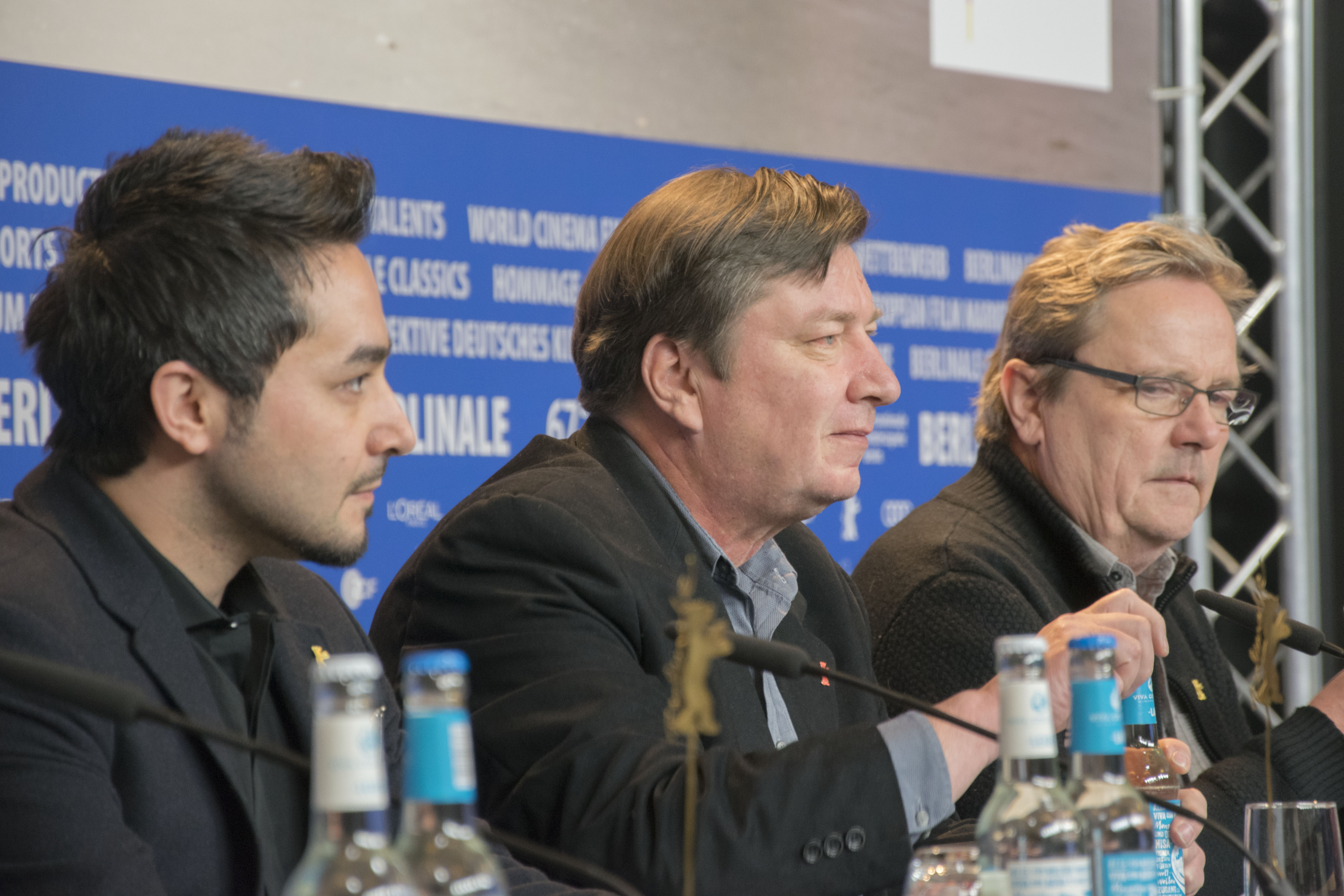 Sherwan Haji, Aki Kaurismäki and Sakari Kuosmanen at the press conference of the film The Other Side of Hope at the 2017 Berlin International Film Festival